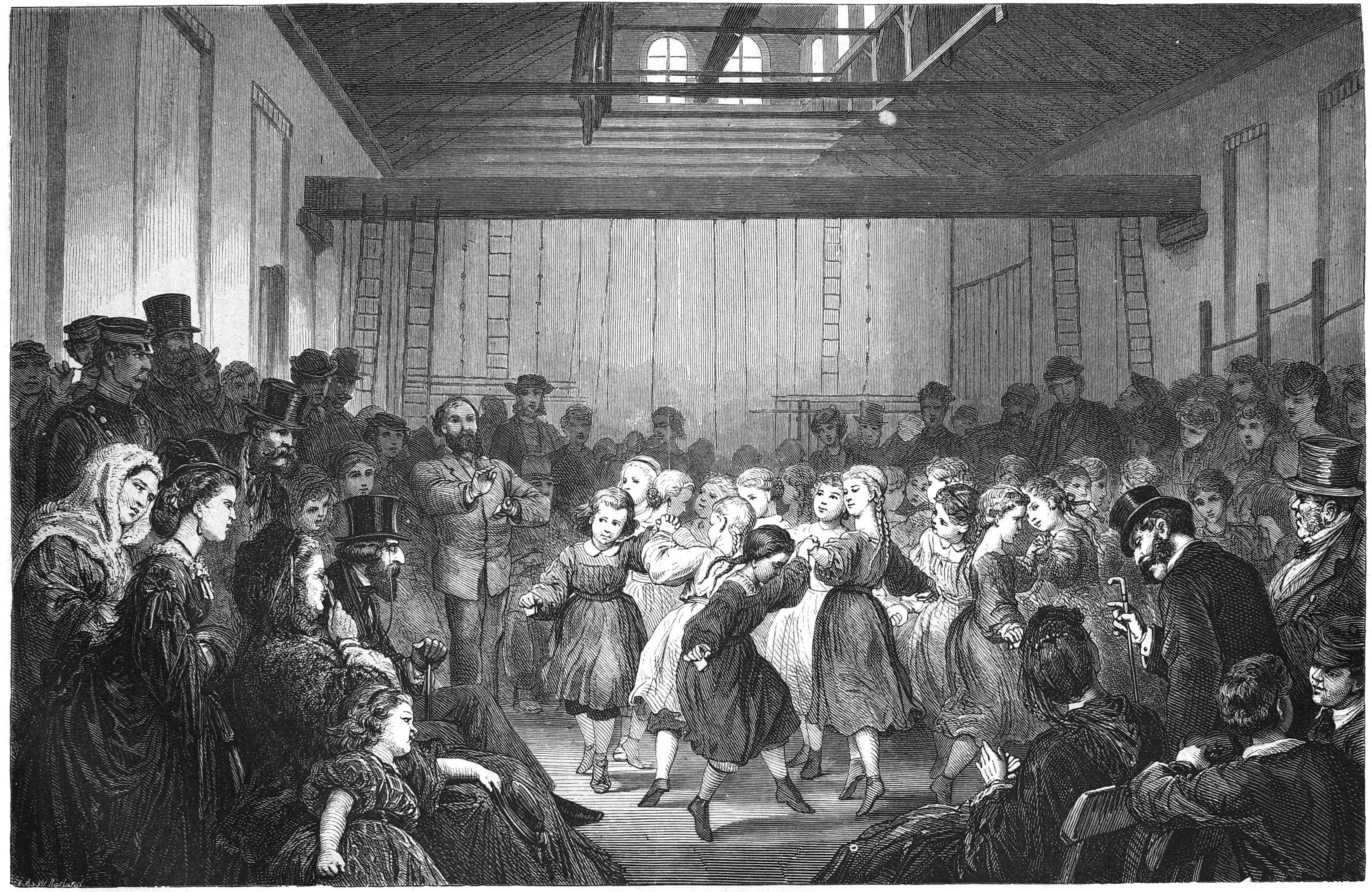 caption: "Castagnetten-Reigen der Mädchen-Turnanstalt in Düsseldorf. Nach der Natur aufgenommen von W. Simmler."